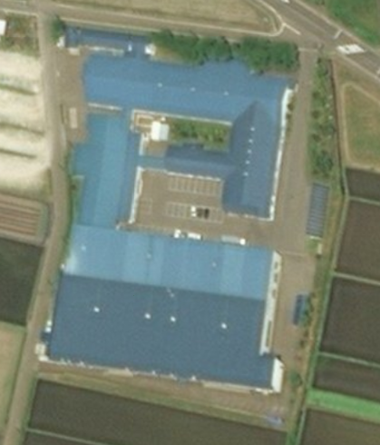 Satellite view